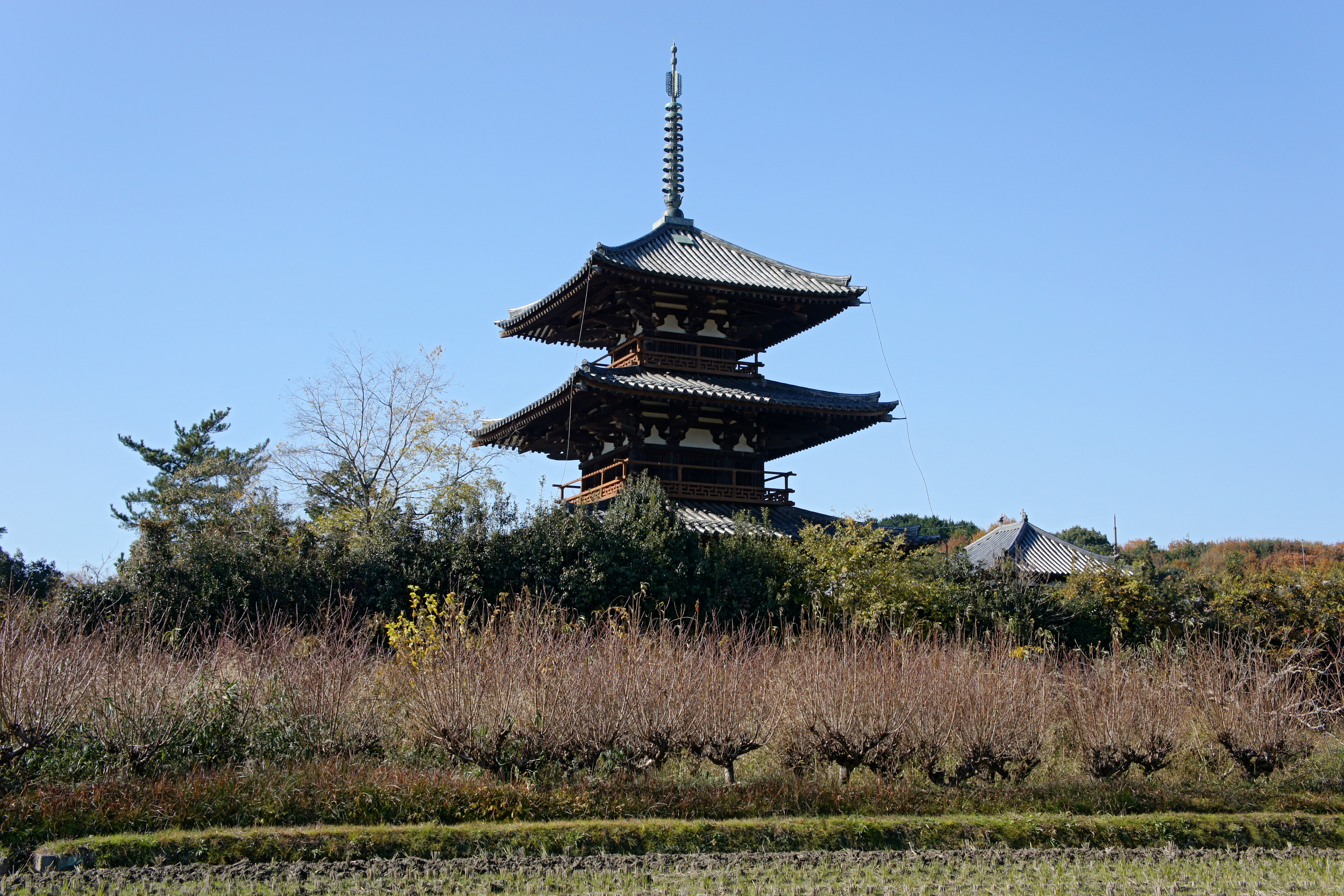 Hokki-ji is a Buddhist temple in Ikaruga, Nara prefecture, Japan. It was registered as part of the UNESCO World Heritage Site "Buddhist Monuments in the Hōryū-ji Area".